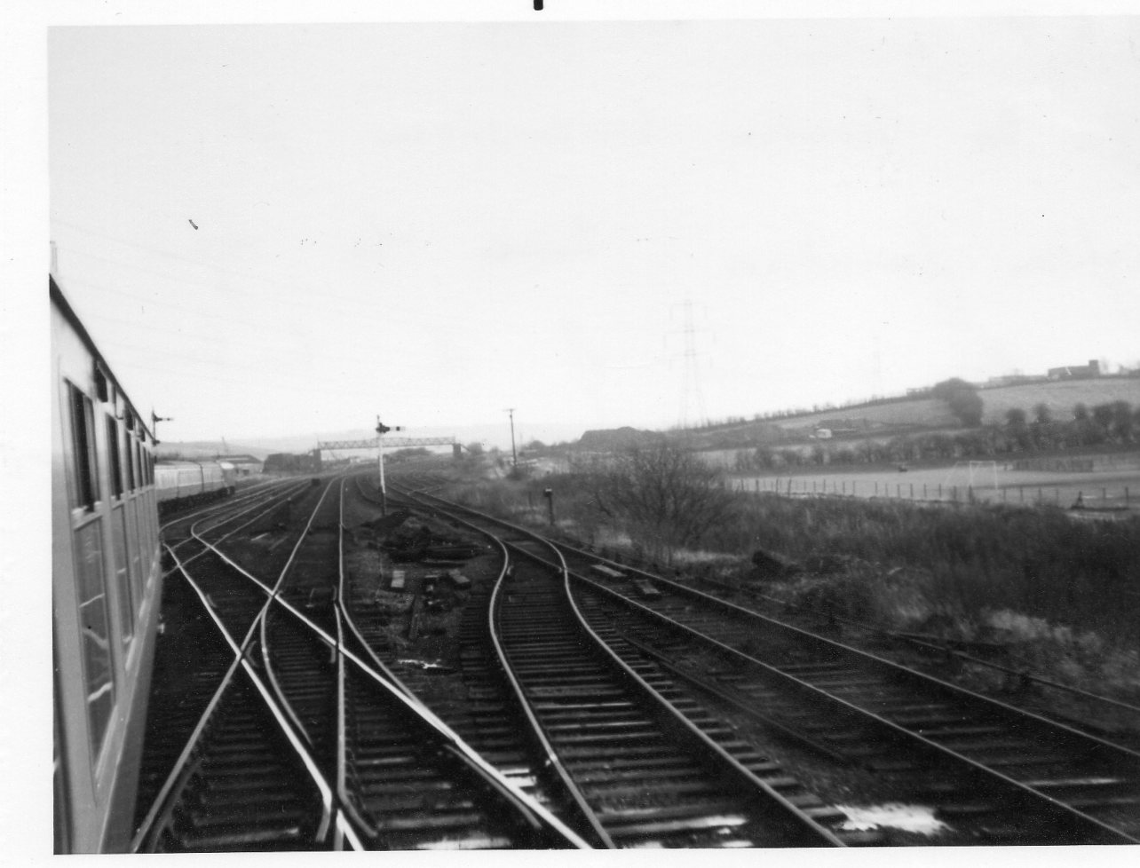 Beighton Junction (ie the 1891 junction where the MSLR "Derbyshire Lines", later GCML to London Marylebone left the MSLR Beighton Branch) heading south along the original MSLR Beighton Branch towards the 1849 Beighton Junction with the Midland Railway, 27 November 1977. Trains between Chesterfield and Sheffield were diverted because of engineering work. The track straight ahead from under the photographer was the "Up" (southbound) main line to Marylebone, by 1977 this was just a long single track to Arkwright Colliery. The former "Down" (northbound) main line was the second track from the right and used to run straight through the signal, which was erected after the through route closed in 1966.The rightmost track was originally part of the Holbrook Colliery branch.